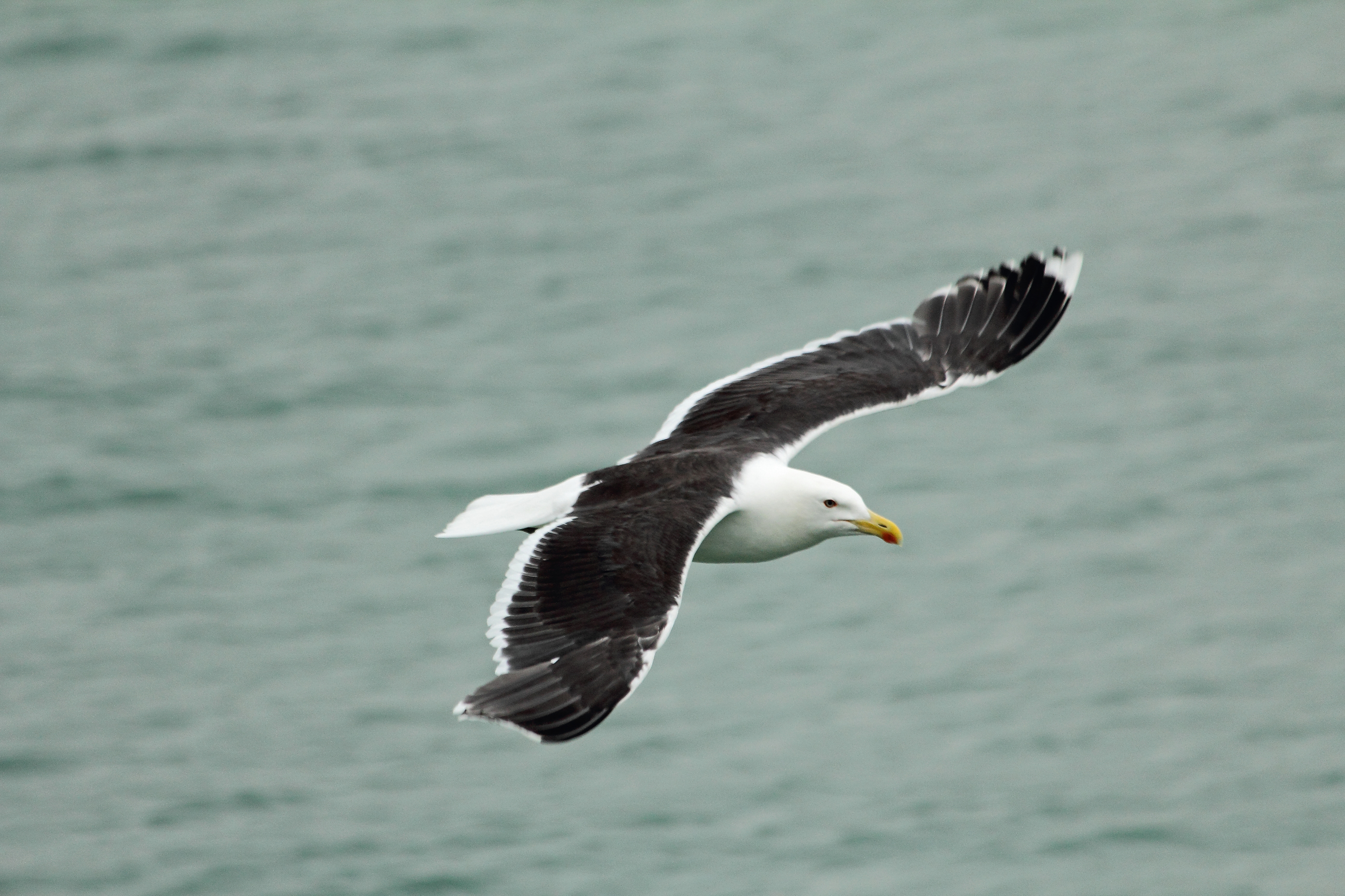 Latin name Larus marinus Family Gulls (Laridae) Overview A very large, thick-set black-backed gull, with a powerful beak. Adults are... Where to see them ... When to see them All year round - found inland most in winter. What they eat Omnivorous - shellfish, birds and carrion.